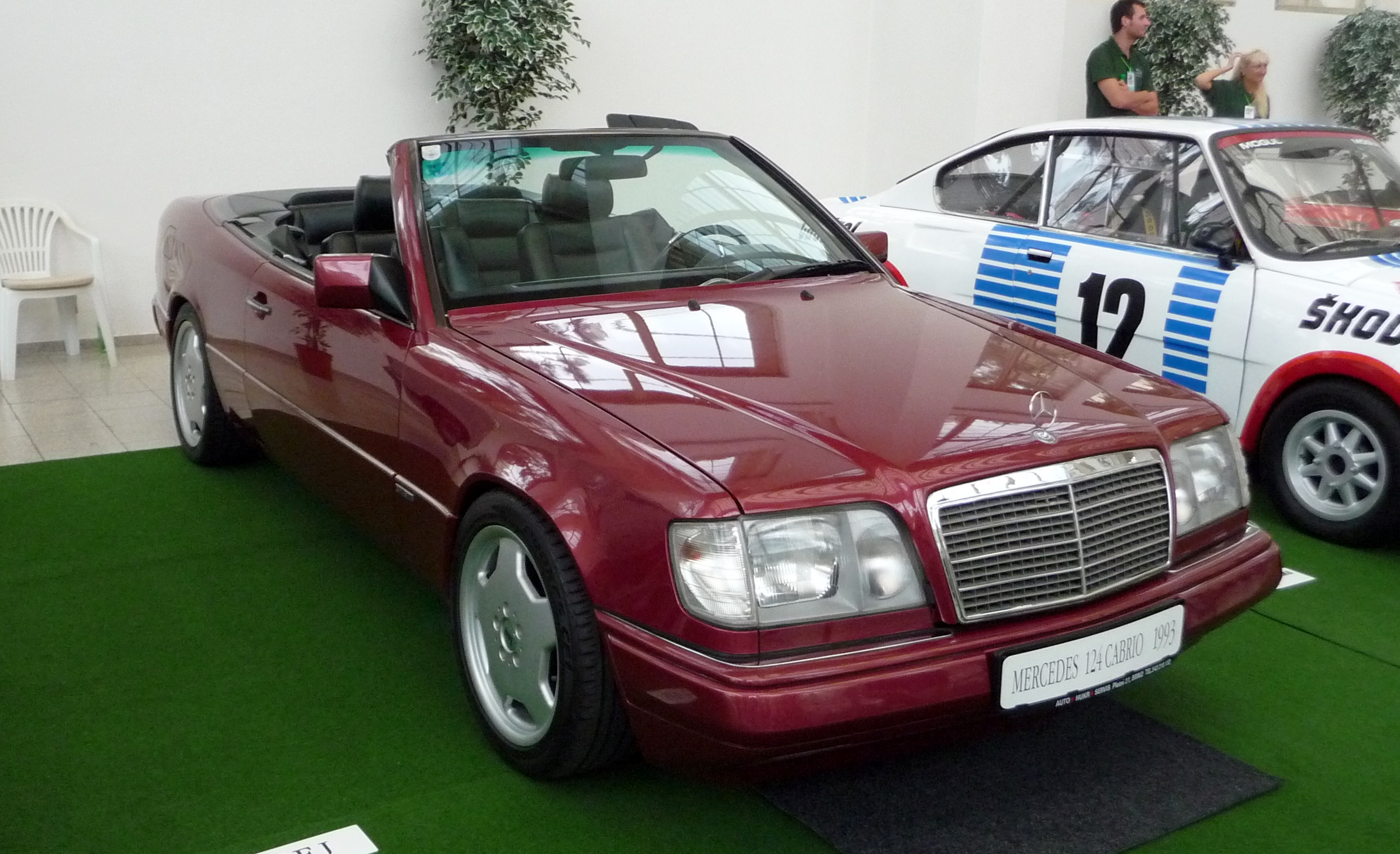 Mercedes 124 Cabrio, year 1993, Classic Show Brno 2011, The Brno Exhibition Grounds -10 -5 -3 -2 ◄ ► +2 +3 +5 +10